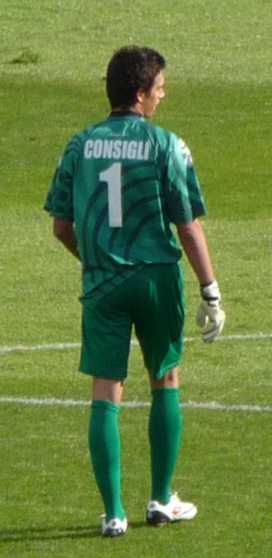 Udinese - Atalanta 1-3 18/10/2009